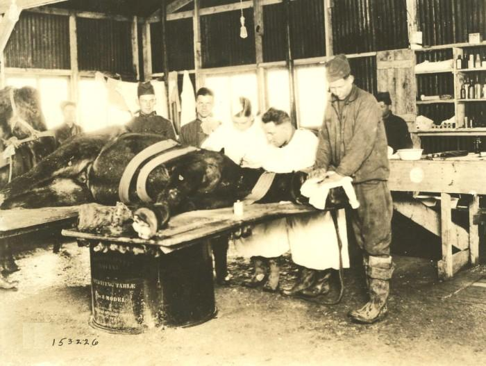 World War I photograph of a field veterinarian operating on an injured horse secured to "The Simplicity Equine," a portable table, which was being used by the US Army Signal Corps. WWI was the last major war in which horses were utilized. Although their scale of recruitment was relatively small, they had to endure the more advanced fire power deployed in the war. Advances in medicine and surgery resulted in more available treatment options.